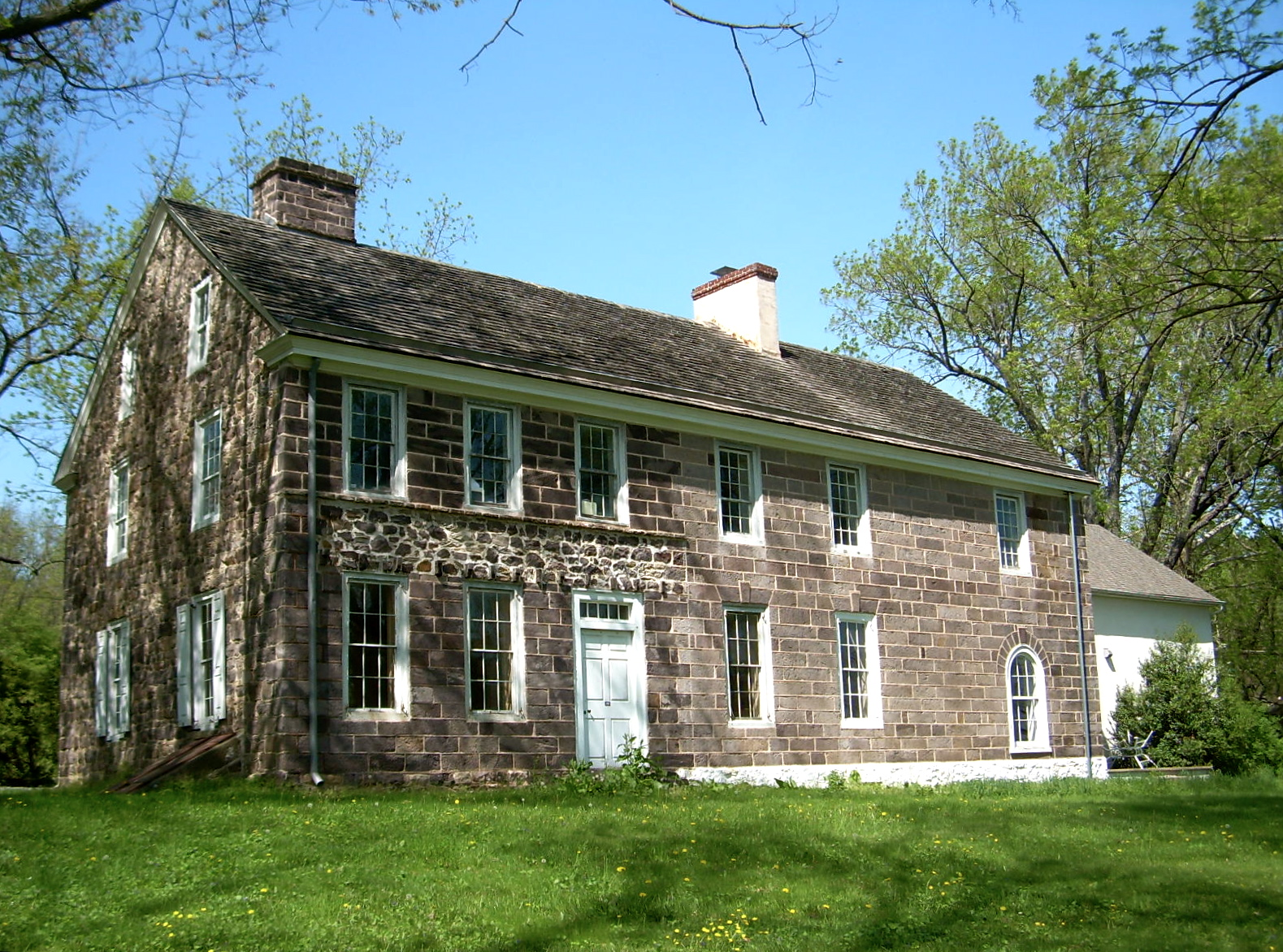 Willjay, taken by me. Coventry House, Coventryville (Pottstown) Pennsylvania.